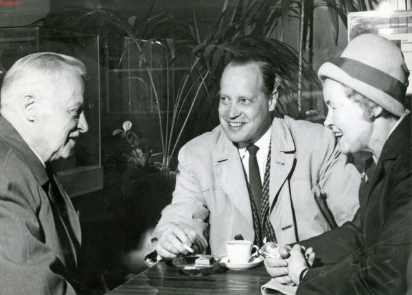 Photograph of the Finnish politicians (Social Democratic Party) Väinö Tanner (1881–1966), Kaarlo Pitsinki (1923–2015) and Sylvi Siltanen (1909–1986).